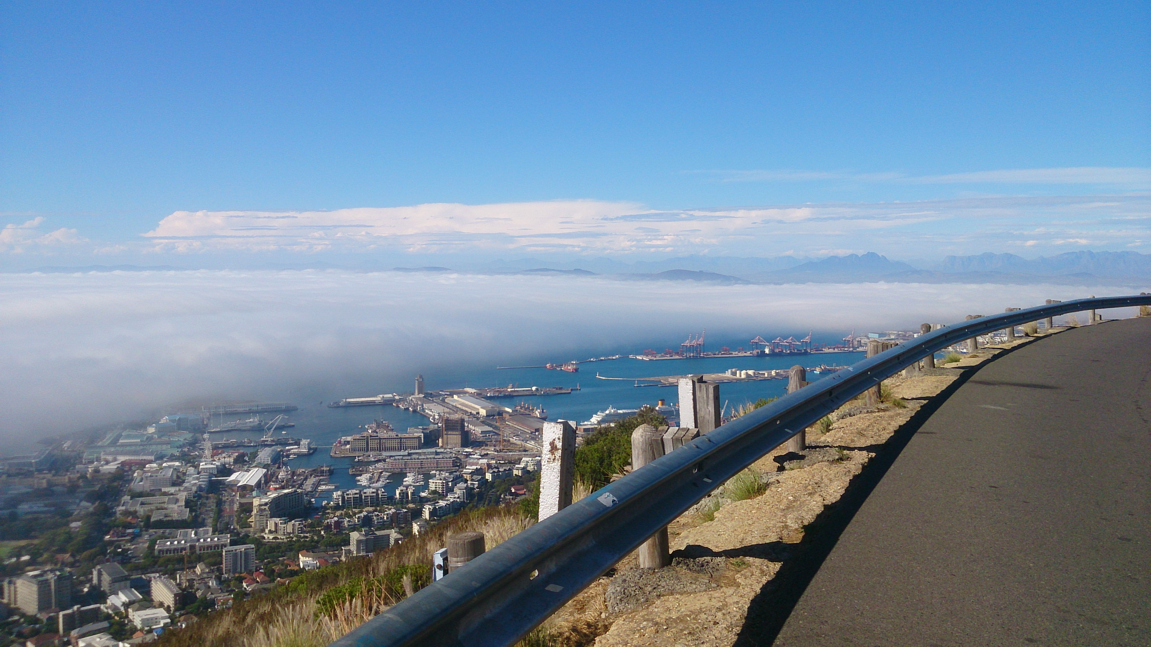 Signal Hill, Cape Town, 8001, South Africa